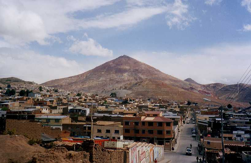 Potosi with Cerro Rico